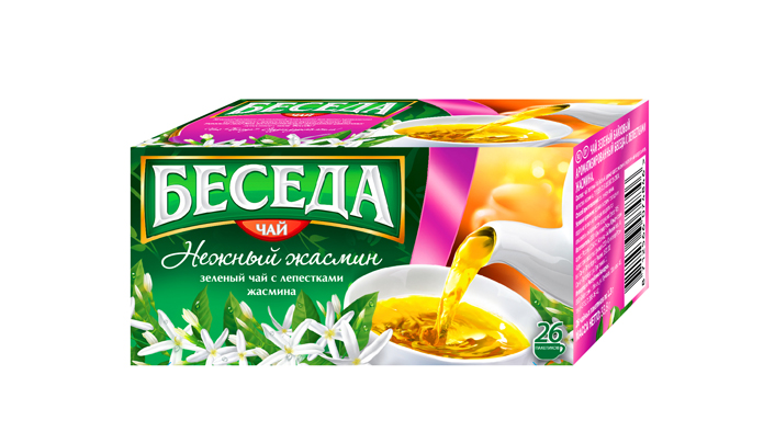 Official Unilever Rus photo, brand Beseda tea